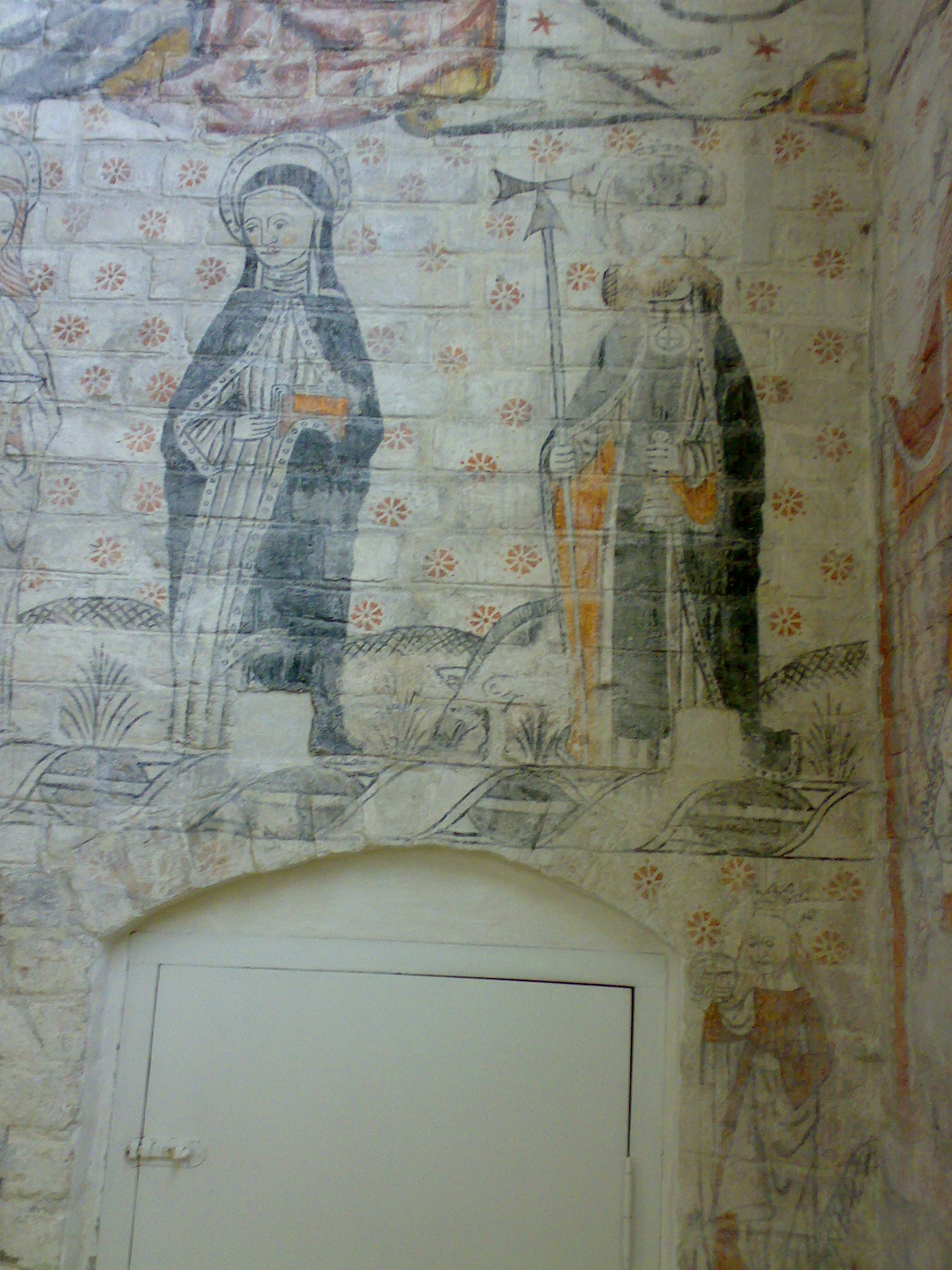 Birgitta of Vadstena and Antonius, Nibe Church Denmark